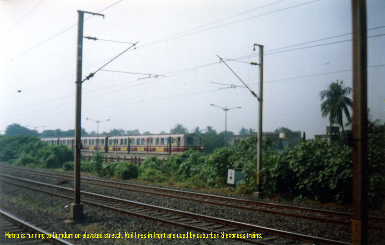 Kolkata metro is on the elevated stretch near Dumdum.